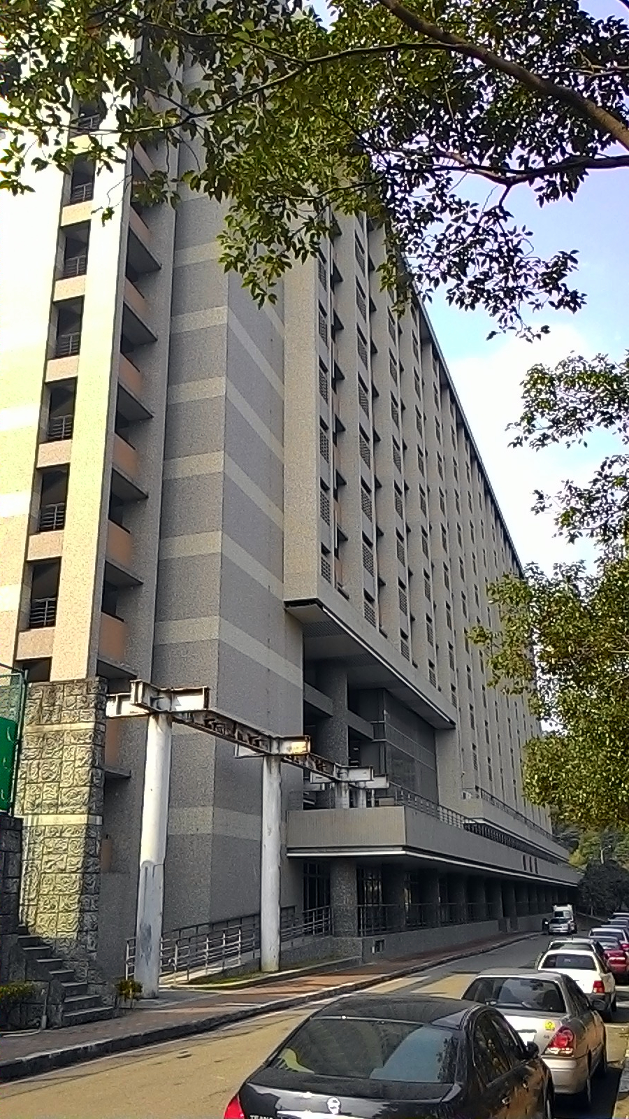 Ming De Building, Chang Gung University.